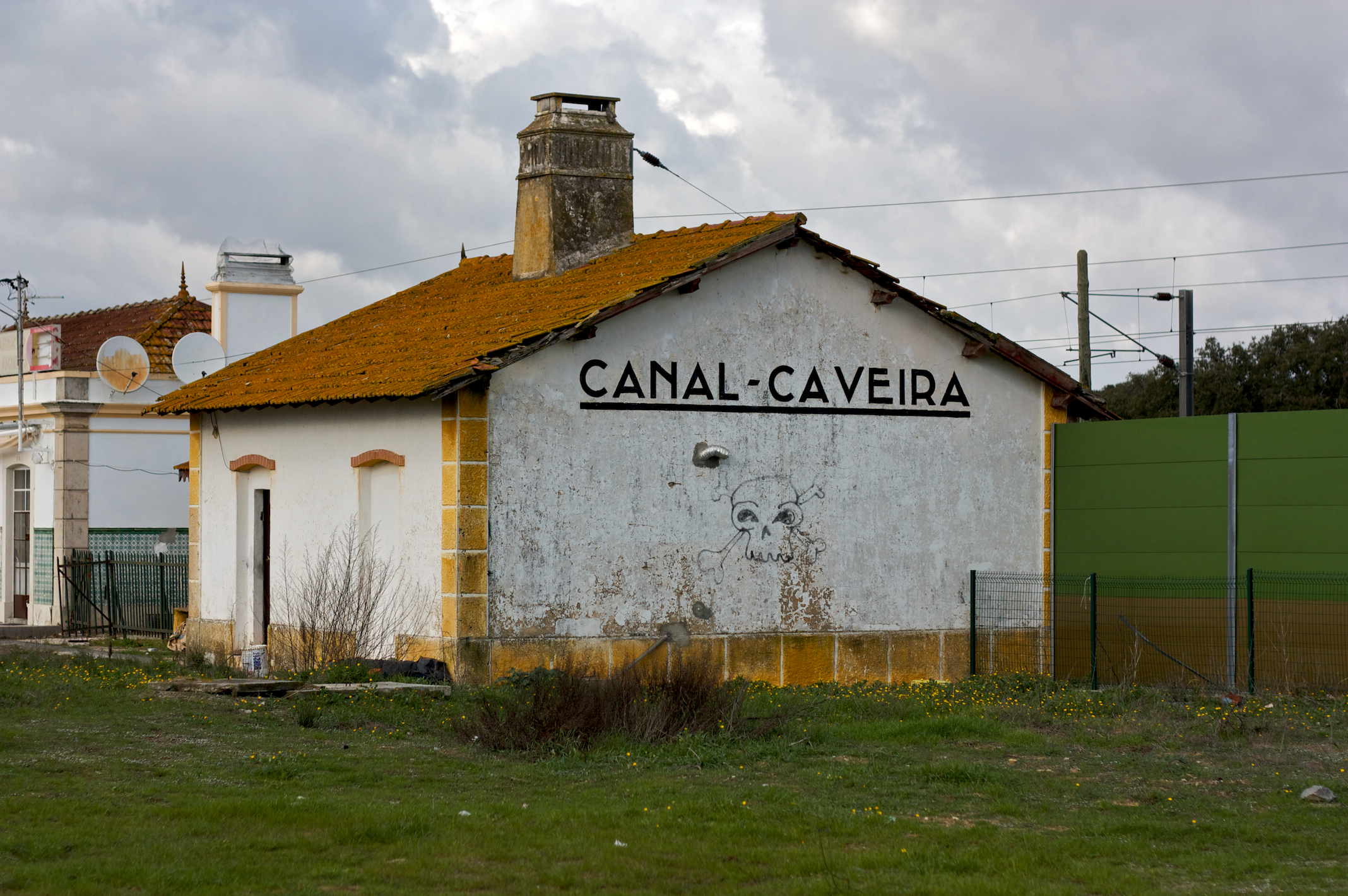 Railway Station of Canal Caveira